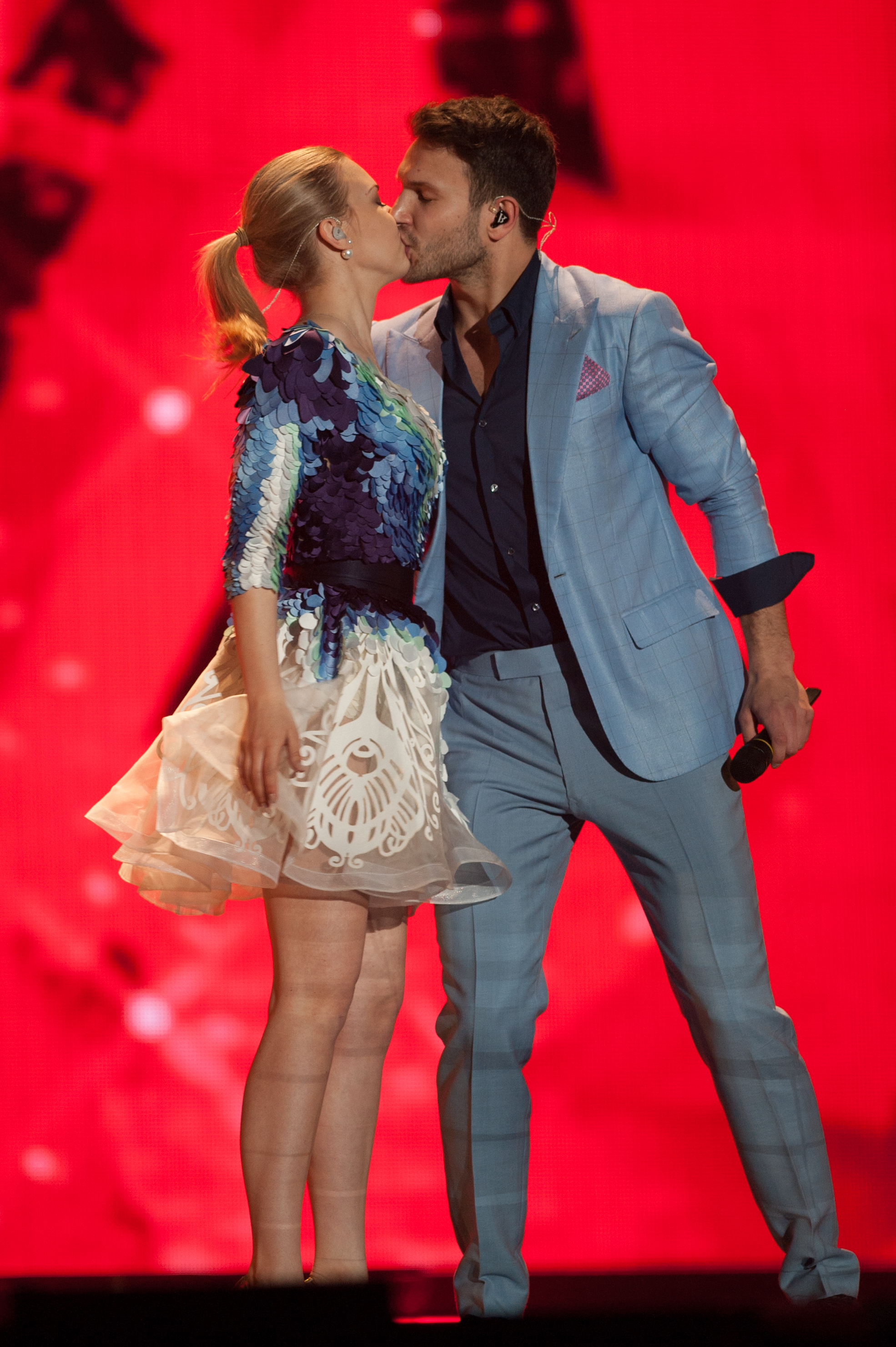 Eurovision Song Contest Vienna 2015: Monika Linkytė & Vaidas Baumila